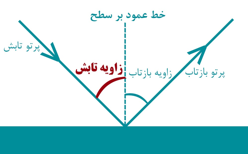 نشان دهنده پرتو تابش، زاویه تابش، خط عمود بر سطح، پرتو بازتاب و زاویه بازتاب در برخورد پرتو به یک سطح تخت بازتابنده